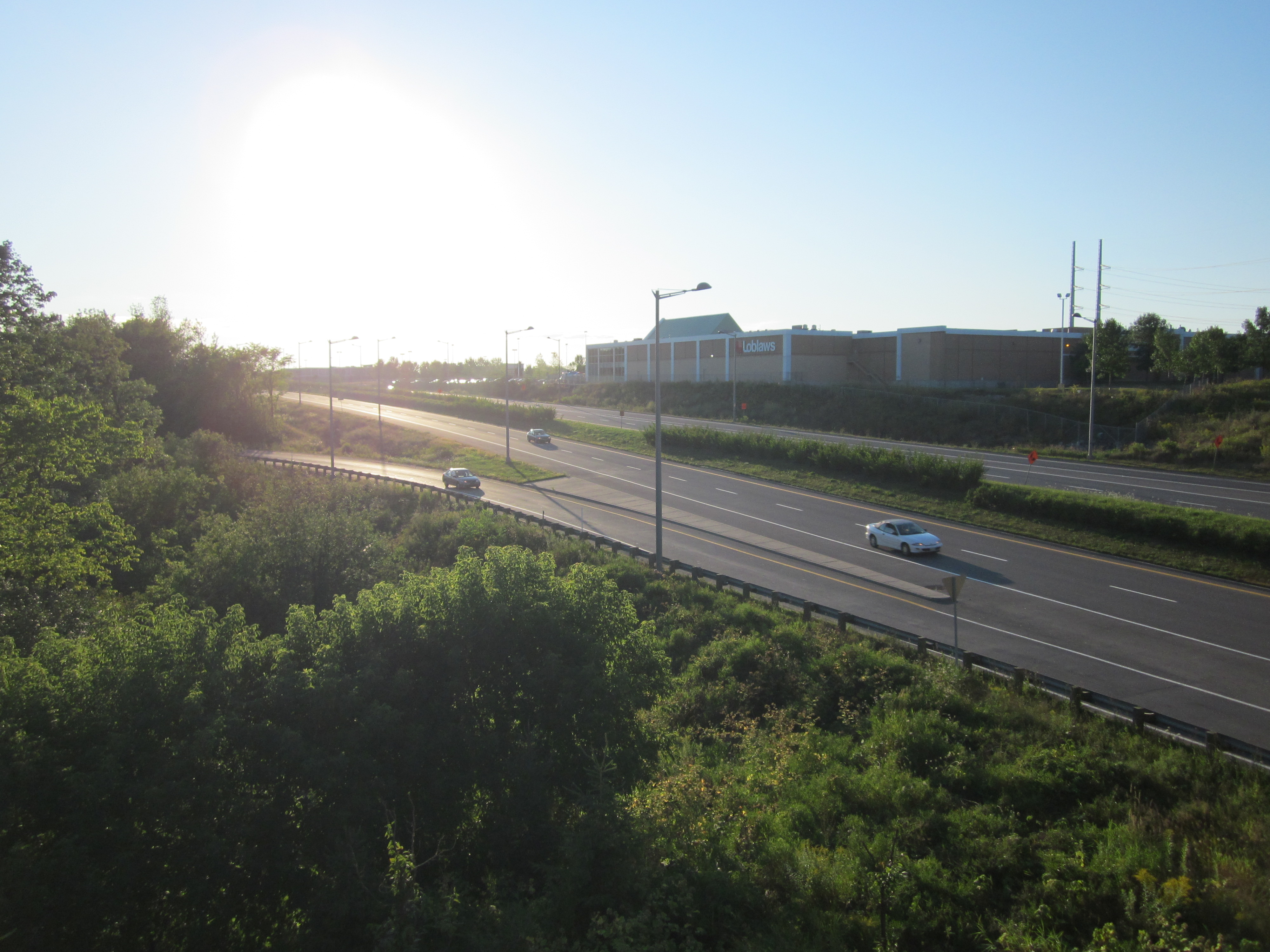 Highway 148 in Gatineau looking west from Saint-Raymond overpass. Corridor previously reserved for autoroute 50.